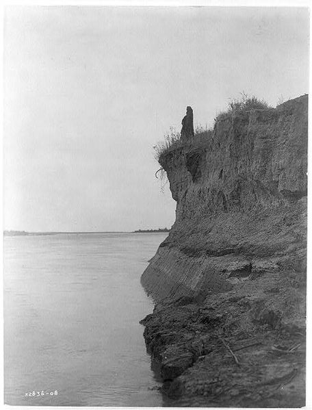 Mandan man overlooking the Missouri River. Photo by Edward S. Curtis circa 1908. From the Library of Congress.